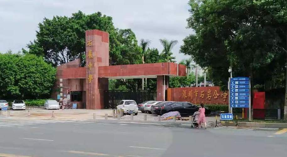 Shiyan Middle School in Shenzhen, China.